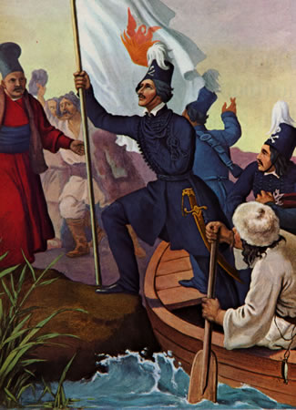 Alexander Ypsilantis (1792–1828) crossing River Pruth into the Danubian Principalities (1821-02-22)